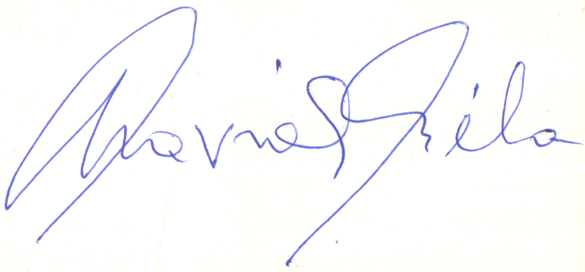 Signature (Unterscription) of singer Béla Mavrák